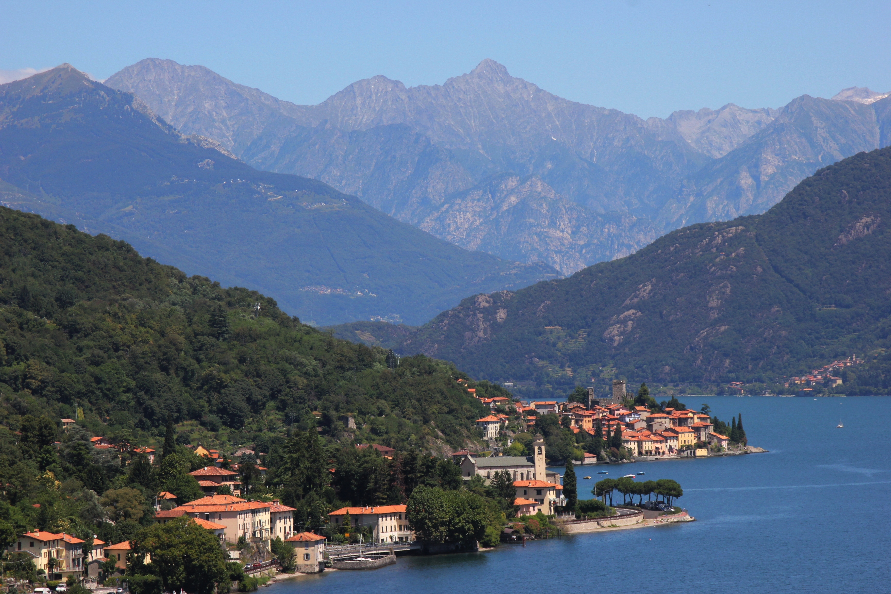 San Siro lake view